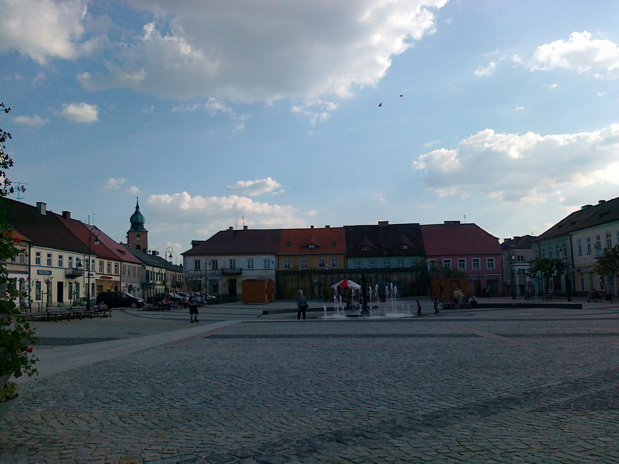 The Old Market in Sieradz after revitalization.